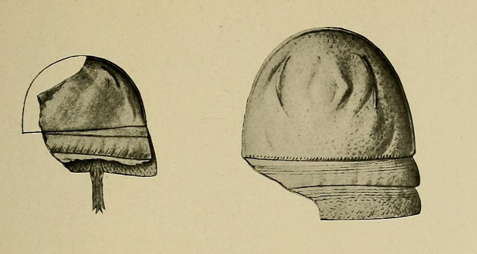 Fossils of the eurypterid Pittsfordipterus phelpsae. The left is the paratype, a specimen retaining part of the carapace, two tergites and operculum with opercular appendage. The right is the holotype, consisting of the carapace and two tergites.